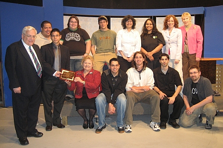 Hall Institute staff Michael P. Riccards and Jarrett Chapin presenting an award to Mercer County Community College president